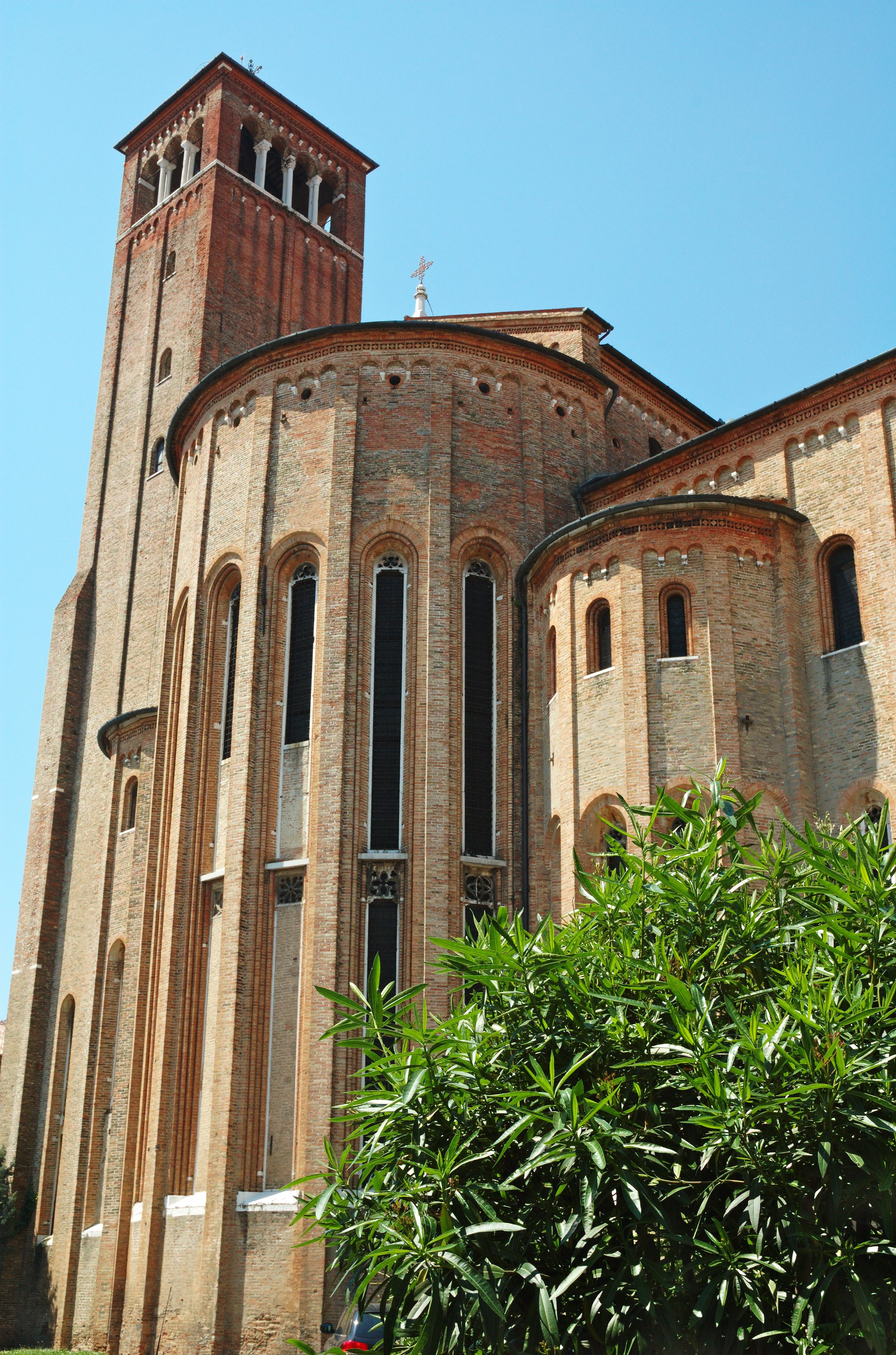 Chiesa di San Nicolò, Treviso.